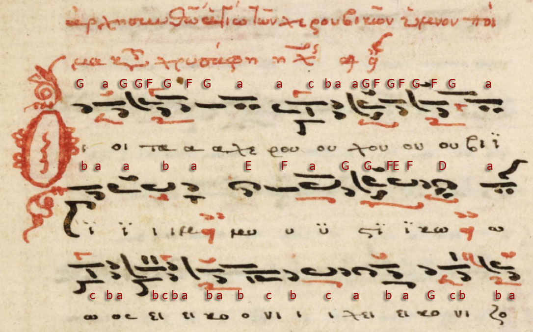 Manuel Chrysaphes' cherouvikon composed in the echos protos and transcribed according to Panagiotes the New Chrysaphes (London, British Library, Ms. Harley 5544, fol. 131v)